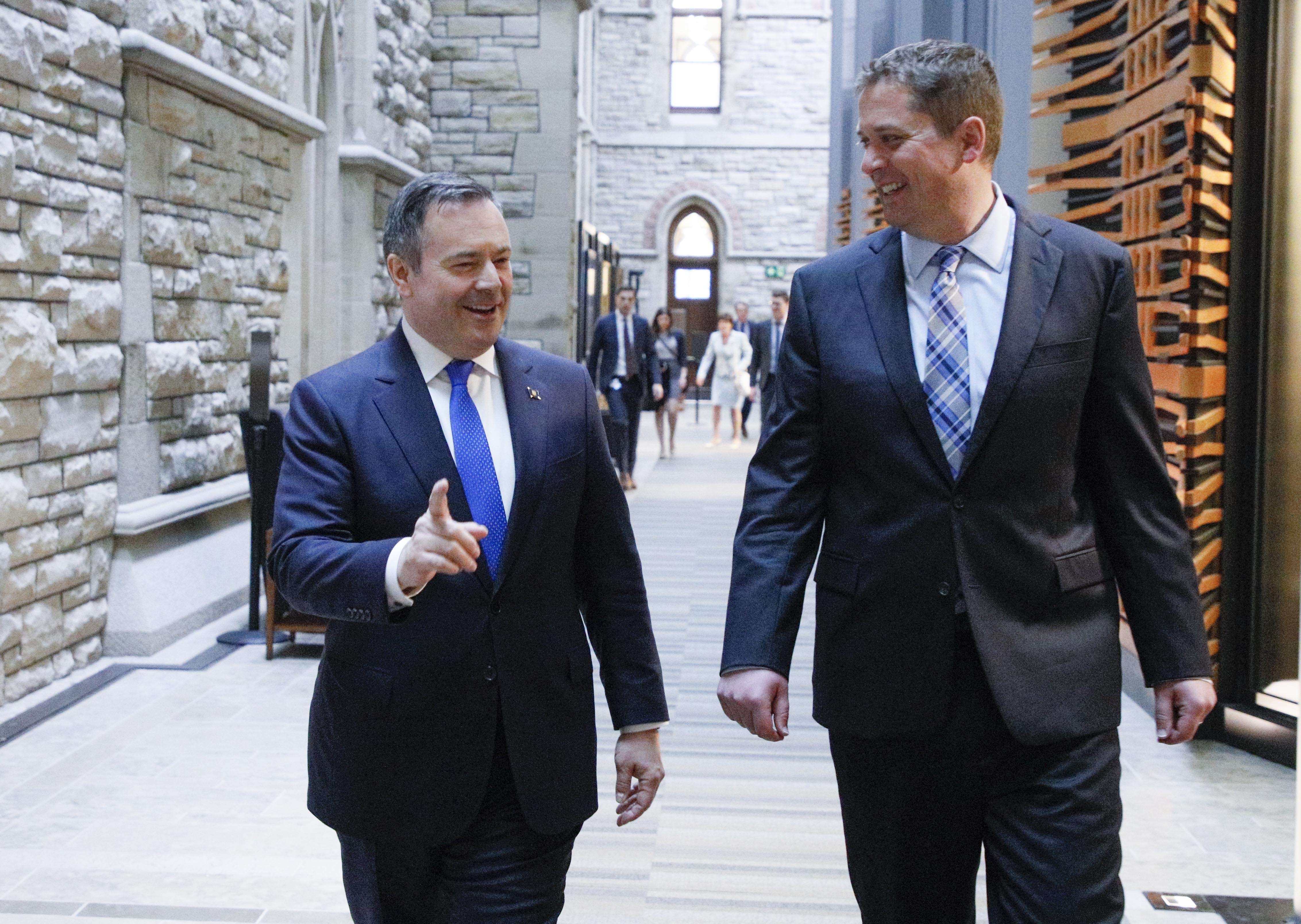 I’m proud to call my friend and former colleague Jason Kenney the Premier of Alberta. He will be a strong voice for his province. Together we will fight for the men and women who work in Alberta’s natural resource sector and the people they support.